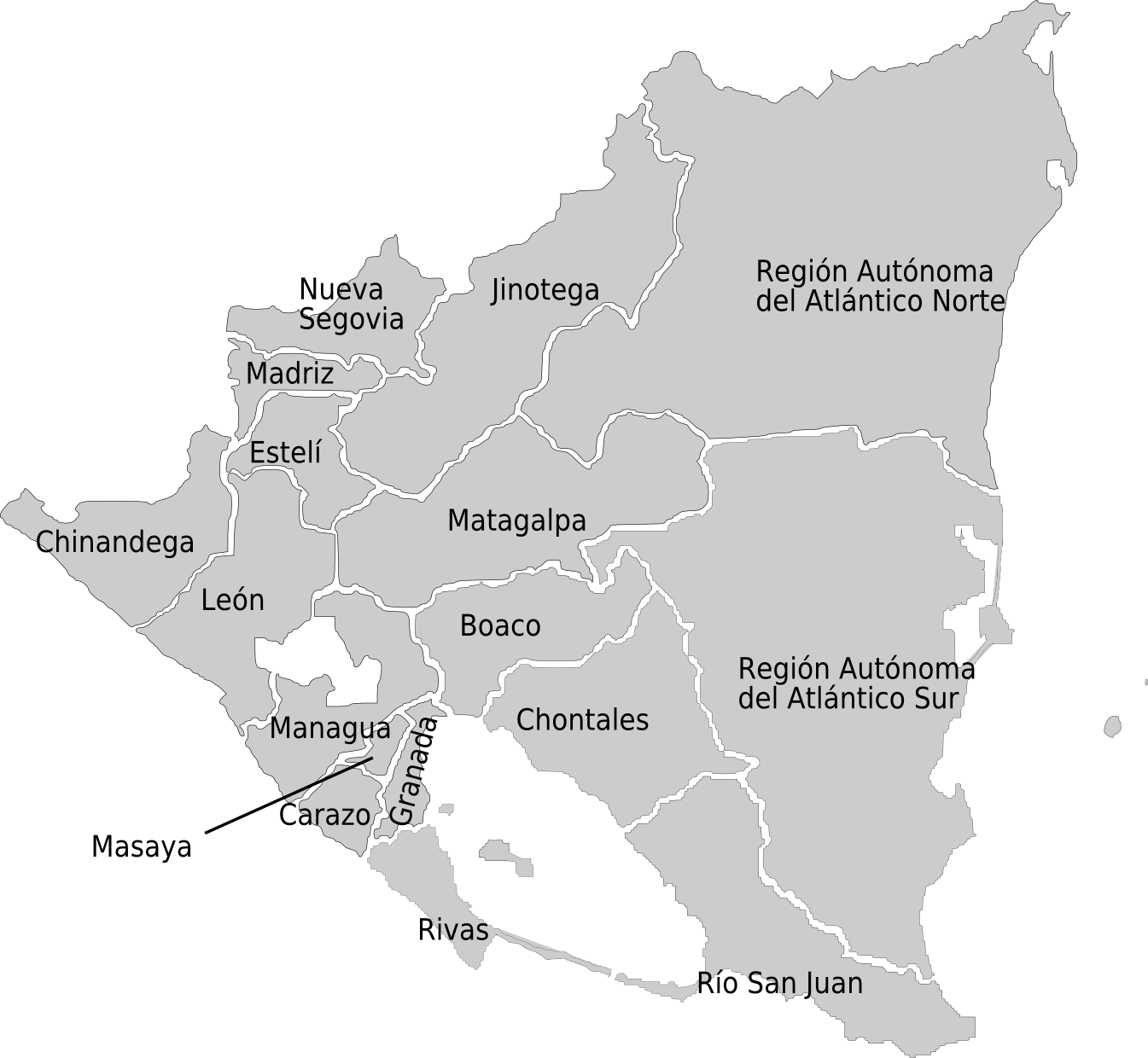 Nicaragua admin division map, PNG version.